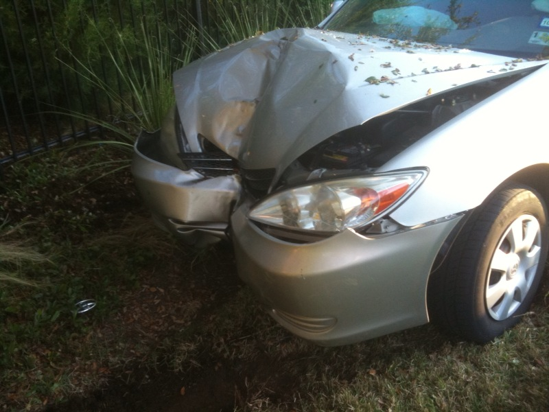 2003 Toyota Camry while being extracted by tow truck after frontal impact with tree.